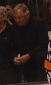 Brad Park coached Legends Team at the Legends Classic in Toronto